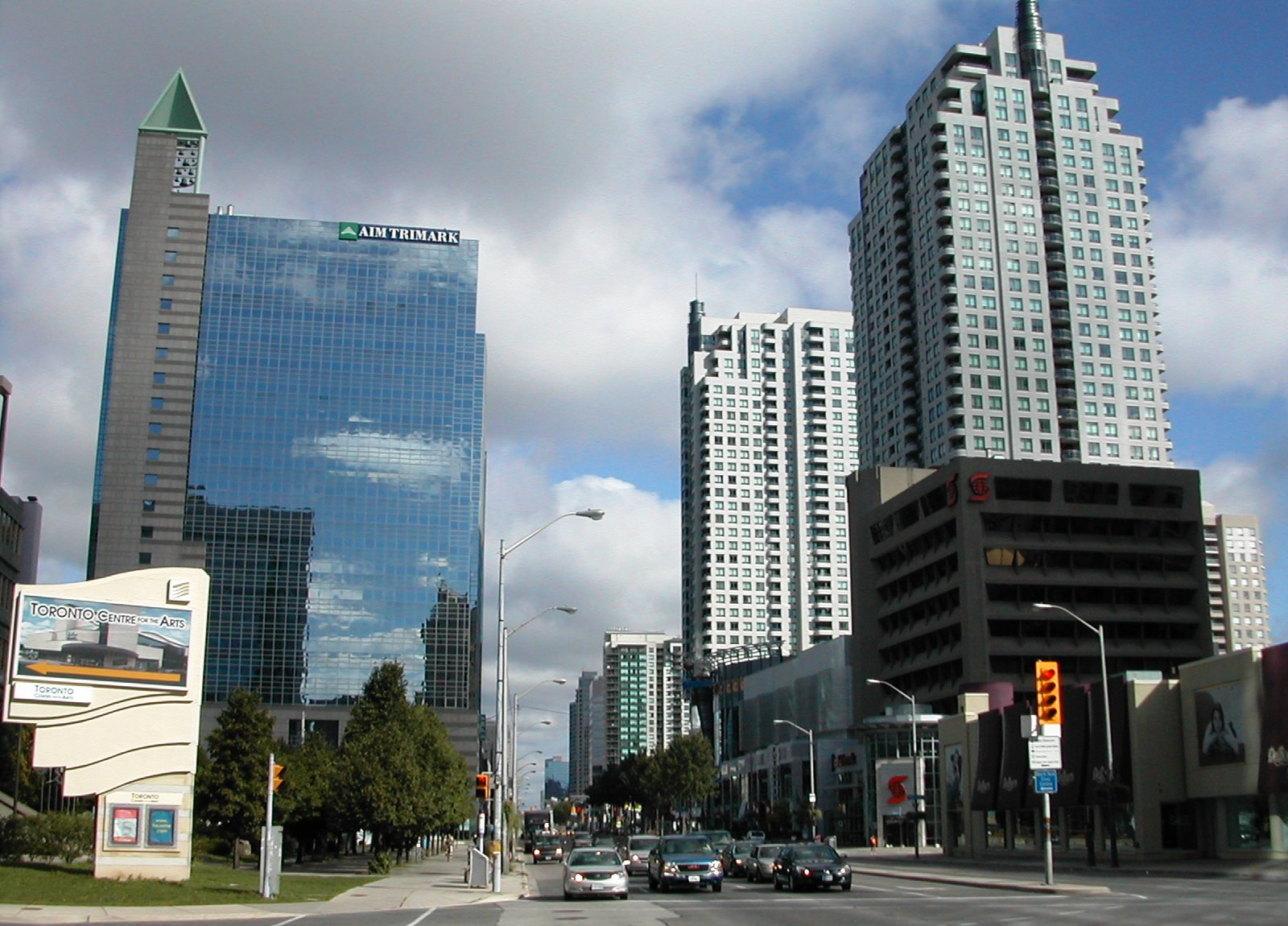 Photograph of Downtown North York taken by PFHLai on September 3, 2005 while standing on Yonge Street outside the Toronto Centre for the Arts and the Toronto District School Board Education Centre, facing north.